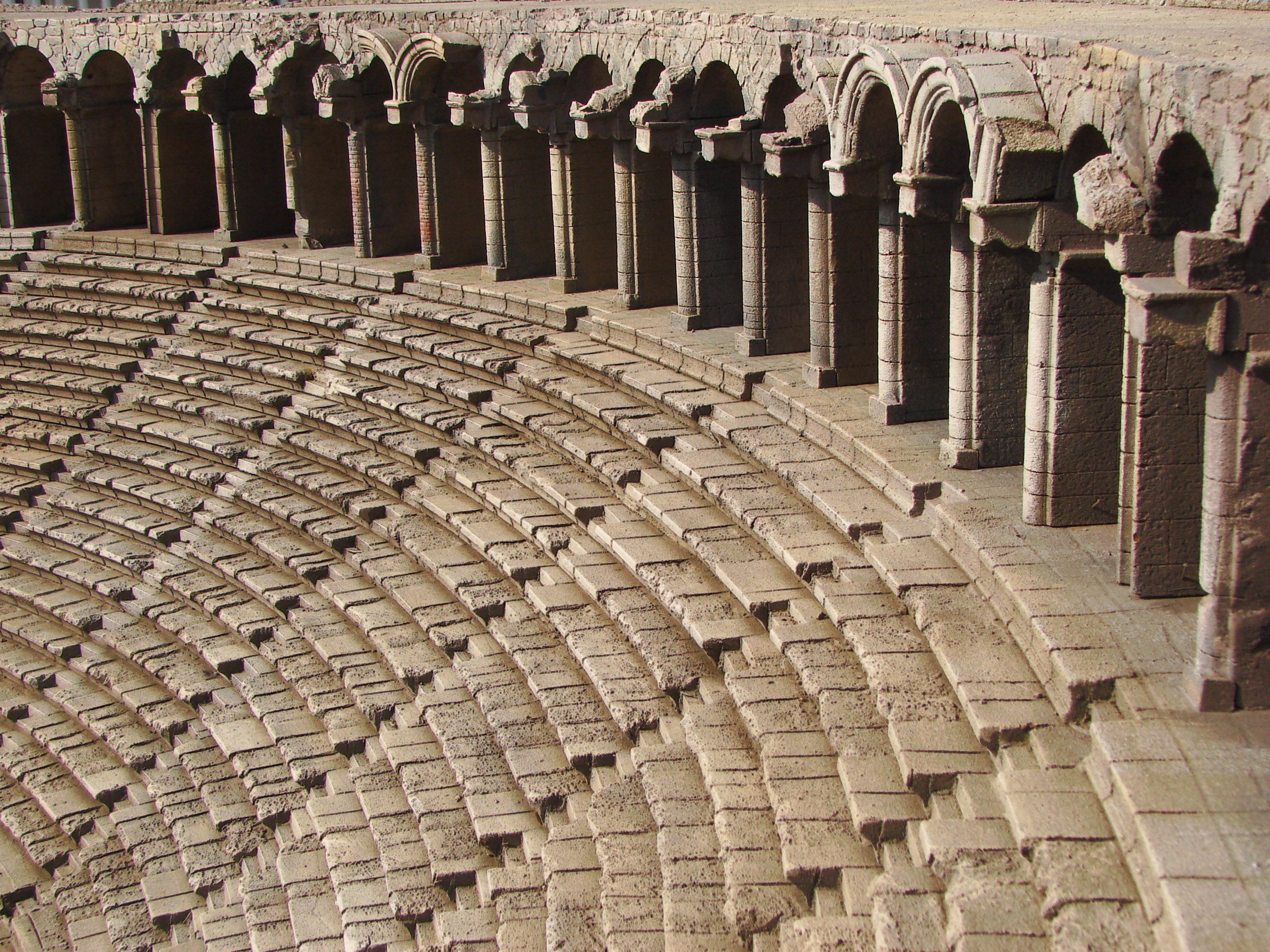 Ancient Roman theater of Aspendos — Miniaturk, Turkey.